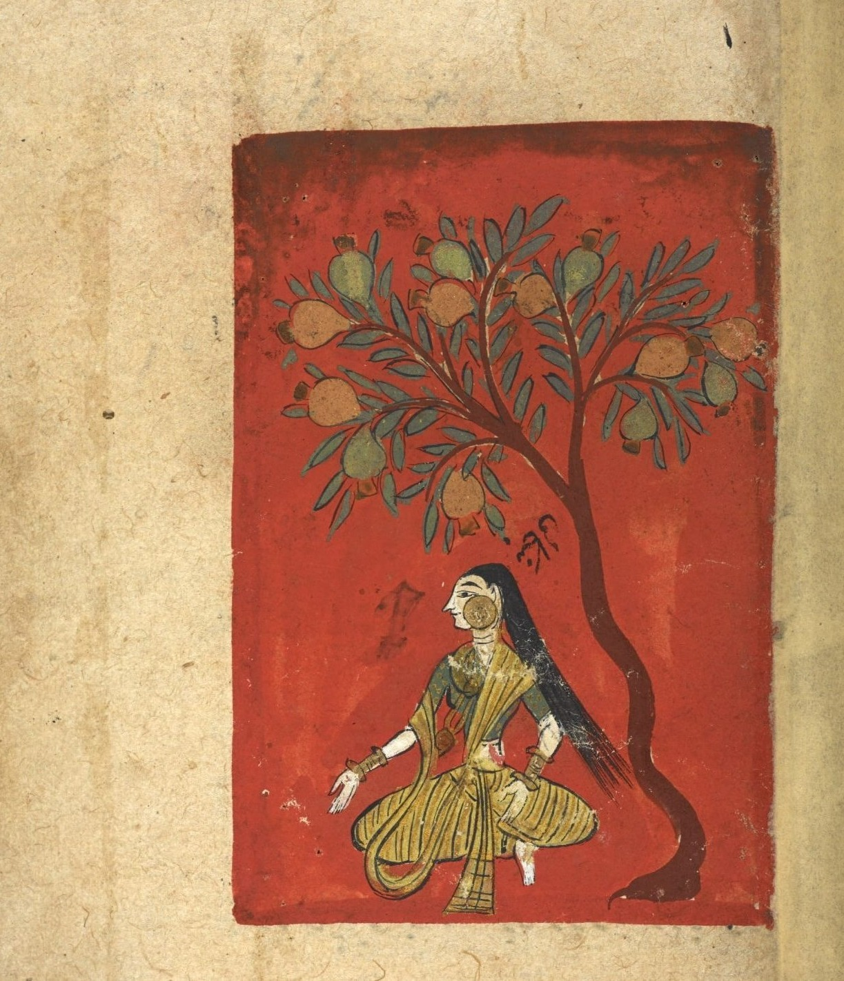 List from Javahir al-Musikat-i Muhammadi, fol.76r, ca 1570, (British Library, Or.12857)